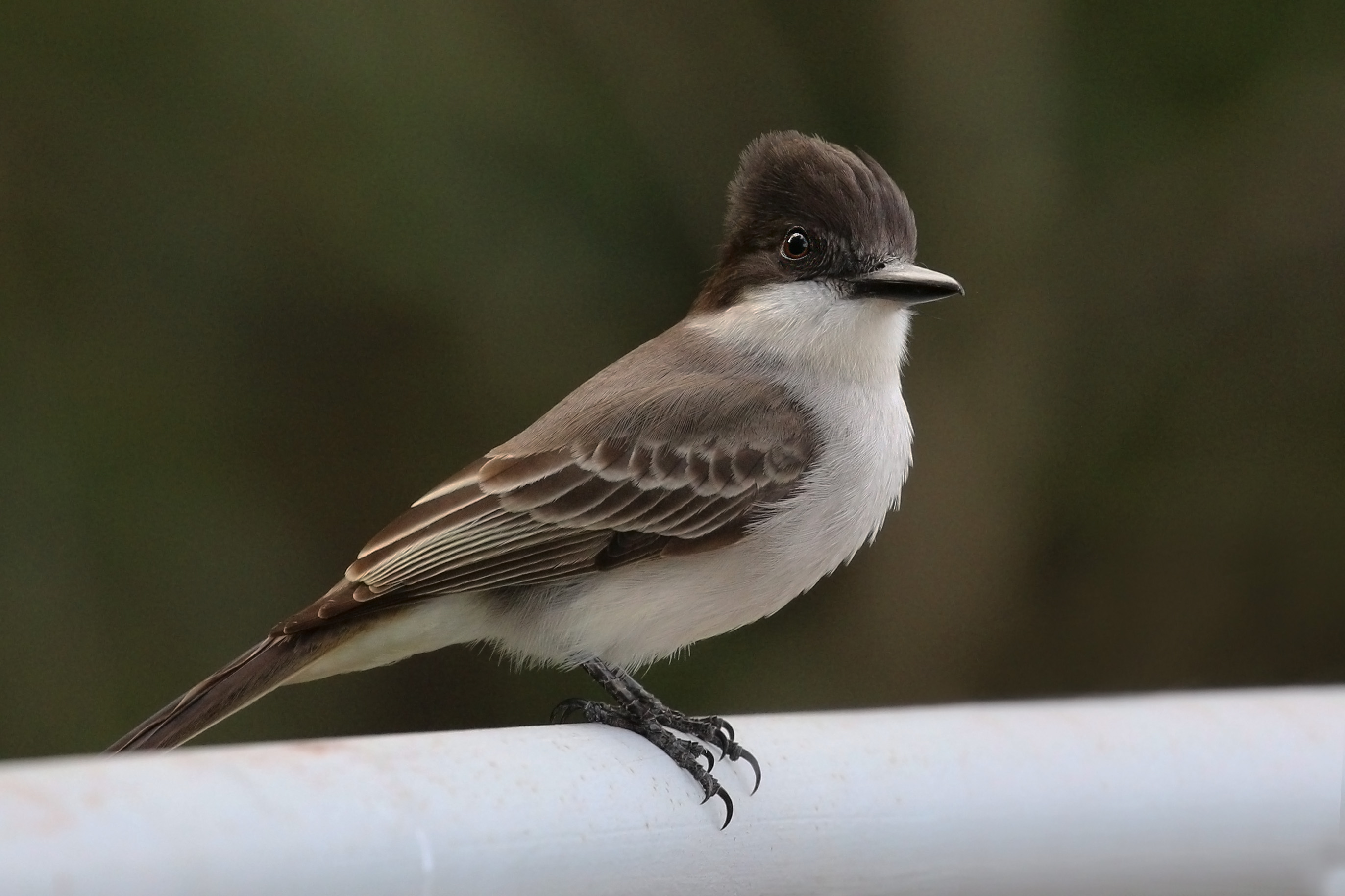 La Sagra's flycatcher (Myiarchus sagrae), Cuba